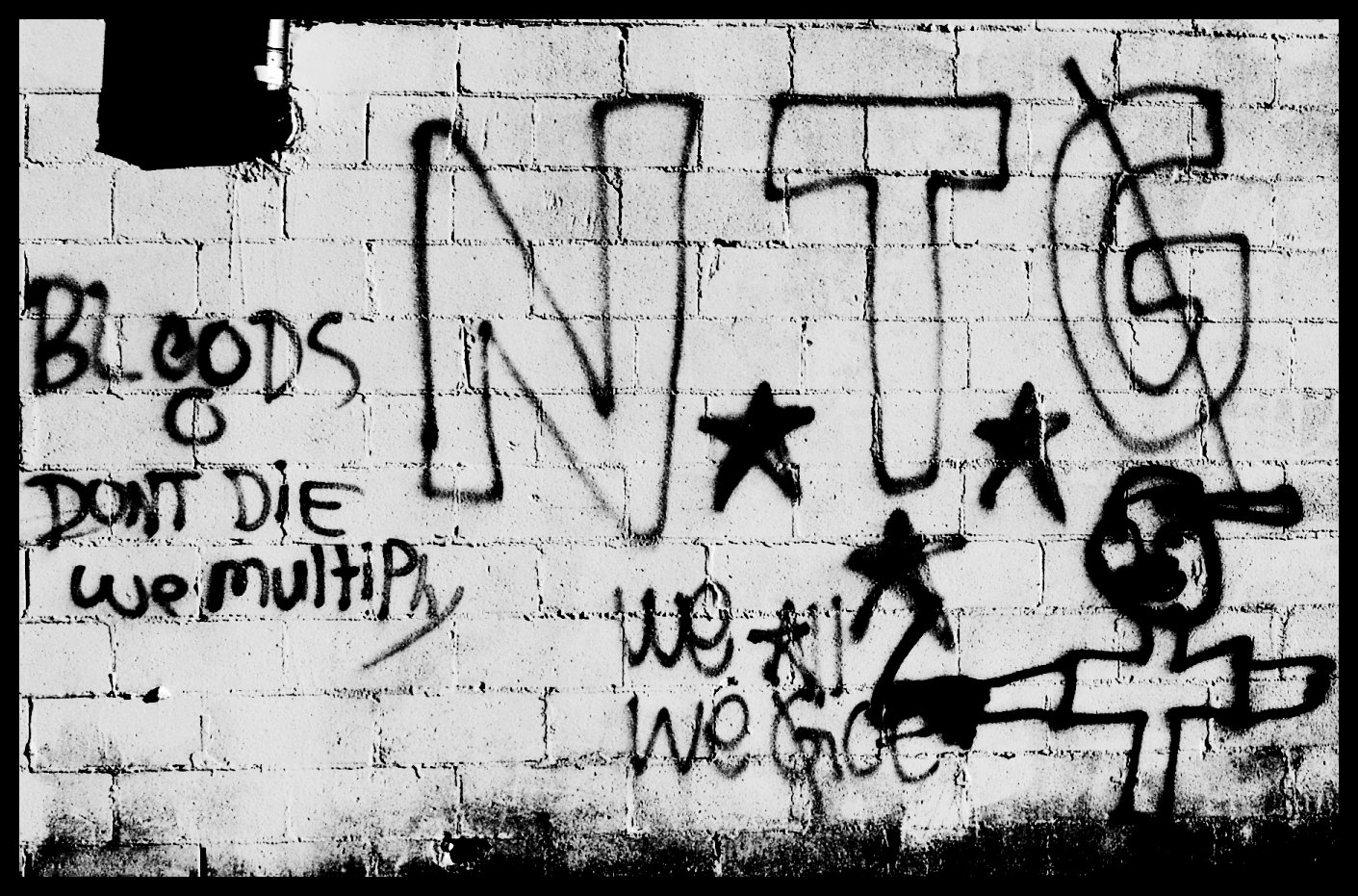 They die and sometimes they get crippled or just beat up badly. (This 12-photo set is part of my work in my photojournalism class at the New School in New York City)